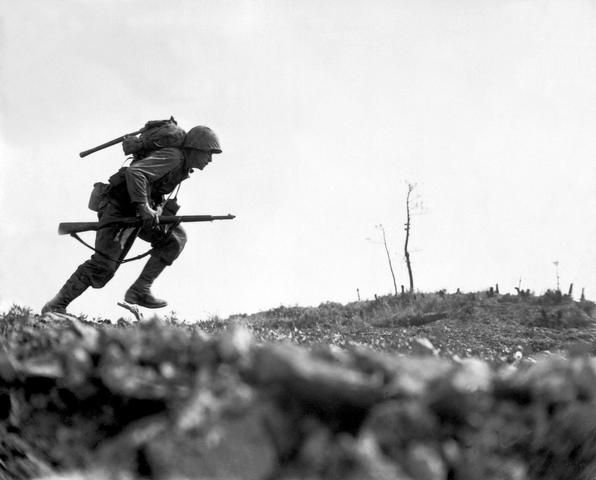 A Marine dashes through Japanese machine gun fire while crossing a draw, called Death Valley by the men fighting there. Marines sustained more than 125 casualties in eight hours crossing this valley. Okinawa, May 10, 1945.